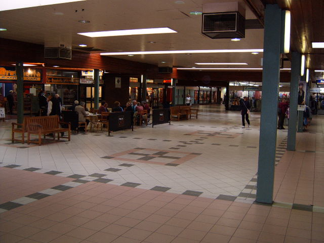 Jamison Centre - inside showing the enclosed area with shops coming off the common area. This is typical of Canberra public buildings that have large common areas, heated in winter and often air conditioned in summer.